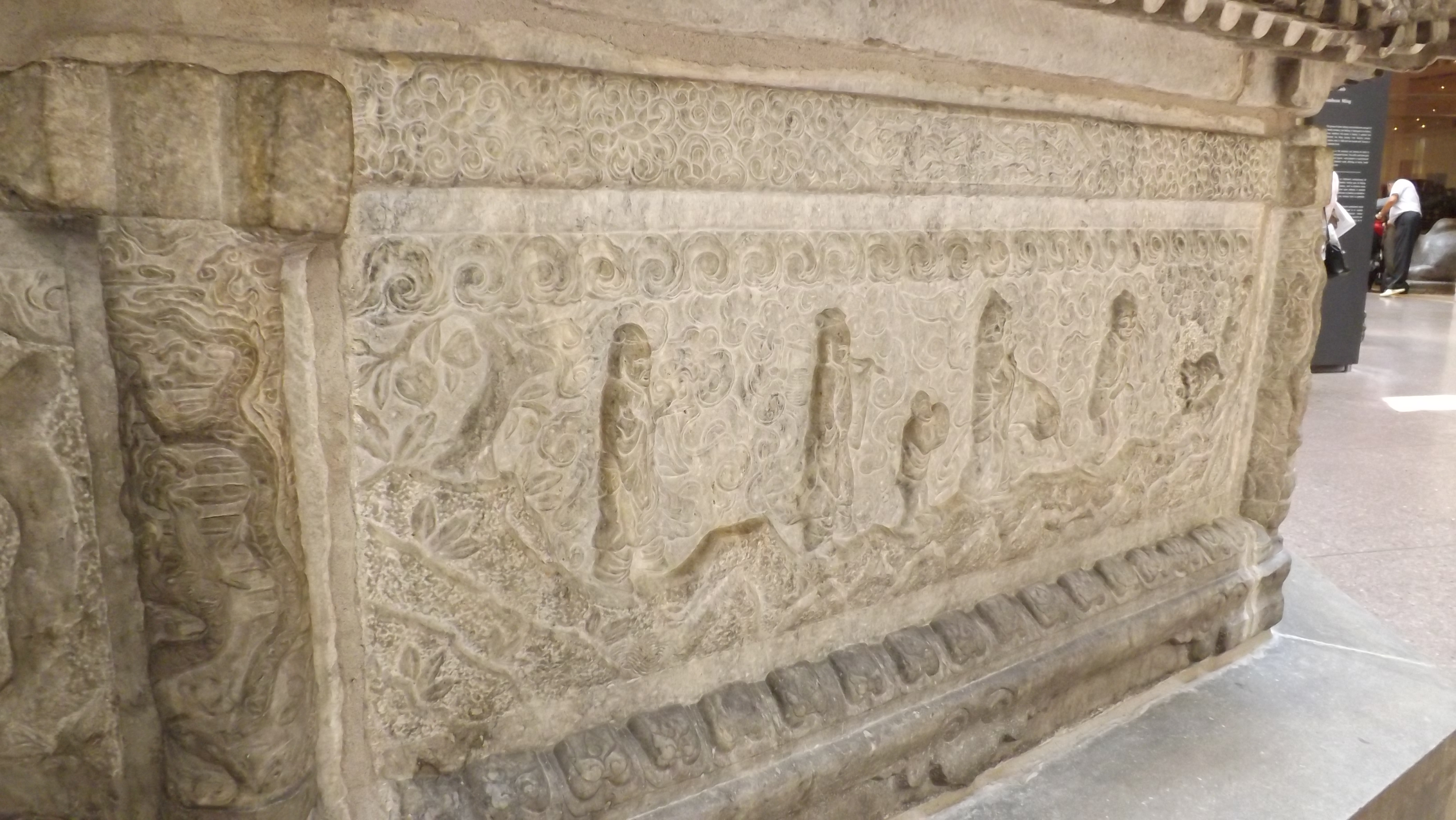 Tomb base, Royal Ontario Museum